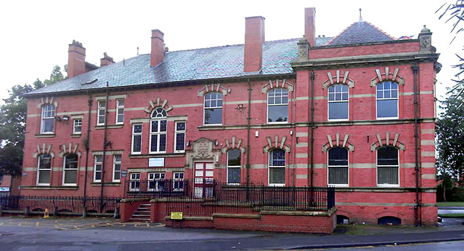 Hindley Town Hall Council Offices, in Hindley, Greater Manchester, England. Montage of two photographs taken by me (User:Hindleyite).